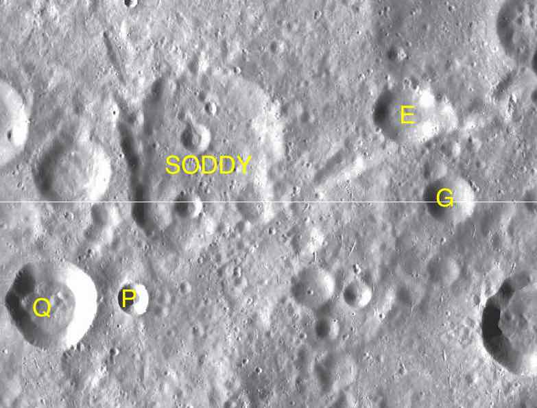 Parts of the charts LAC-65, LAC-83 used for the presentation.